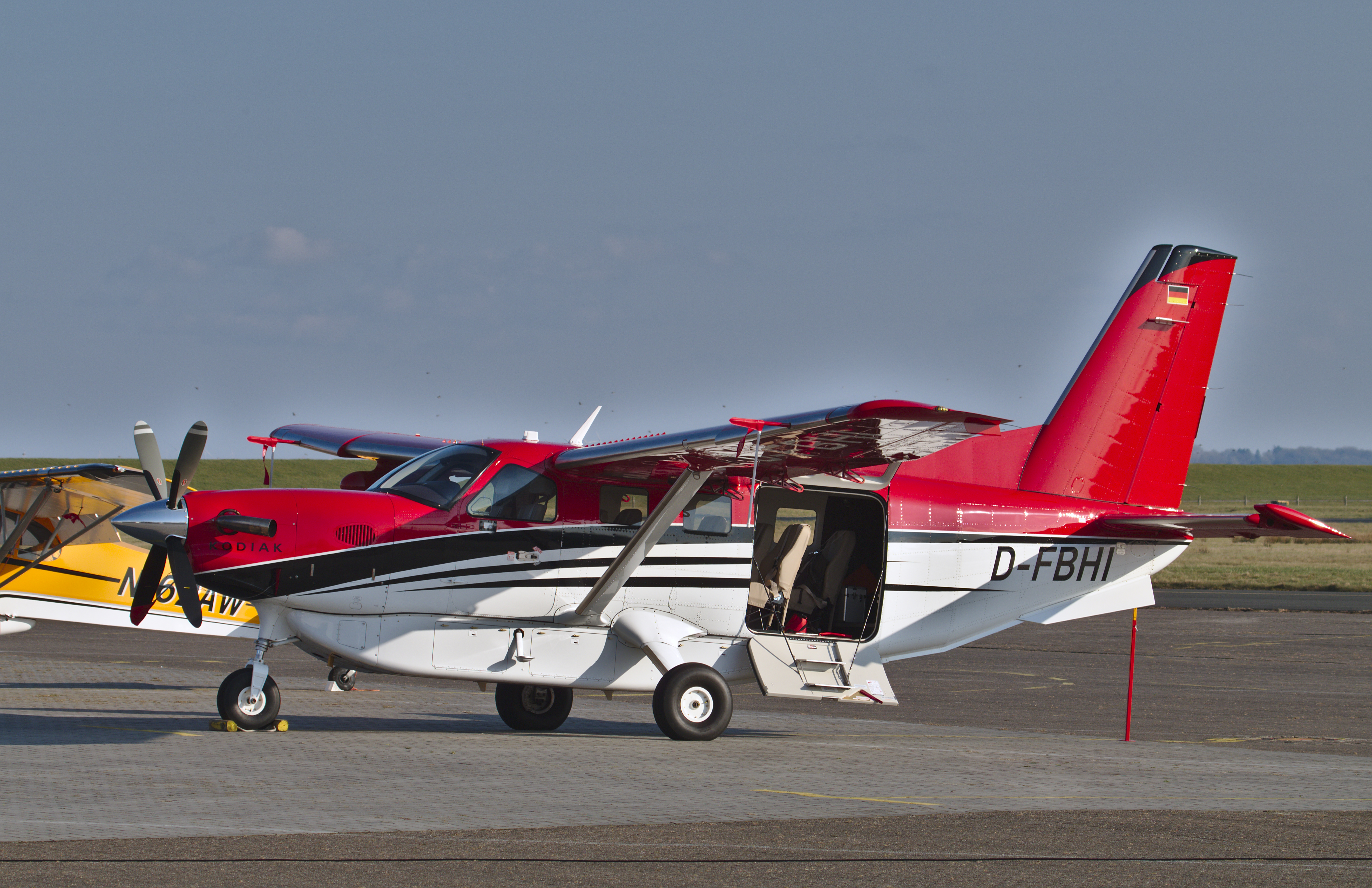 D-FBHI, a Quest Kodiak 100 operated by Privateways under the yourways brand, on the apron of JadeWeserAirport (Mariensiel village, Sande municipality, Lower Saxony, Germany) after having arrived from flight PWY522 (Westerland / Sylt → Wilhelmshaven), facing left. Yourways went out of service in July 2018 due to insufficient demand.